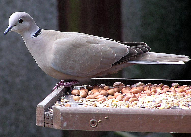 Collared Dove in an English garden. The bird had just finished a meal of peanuts from the bird table.